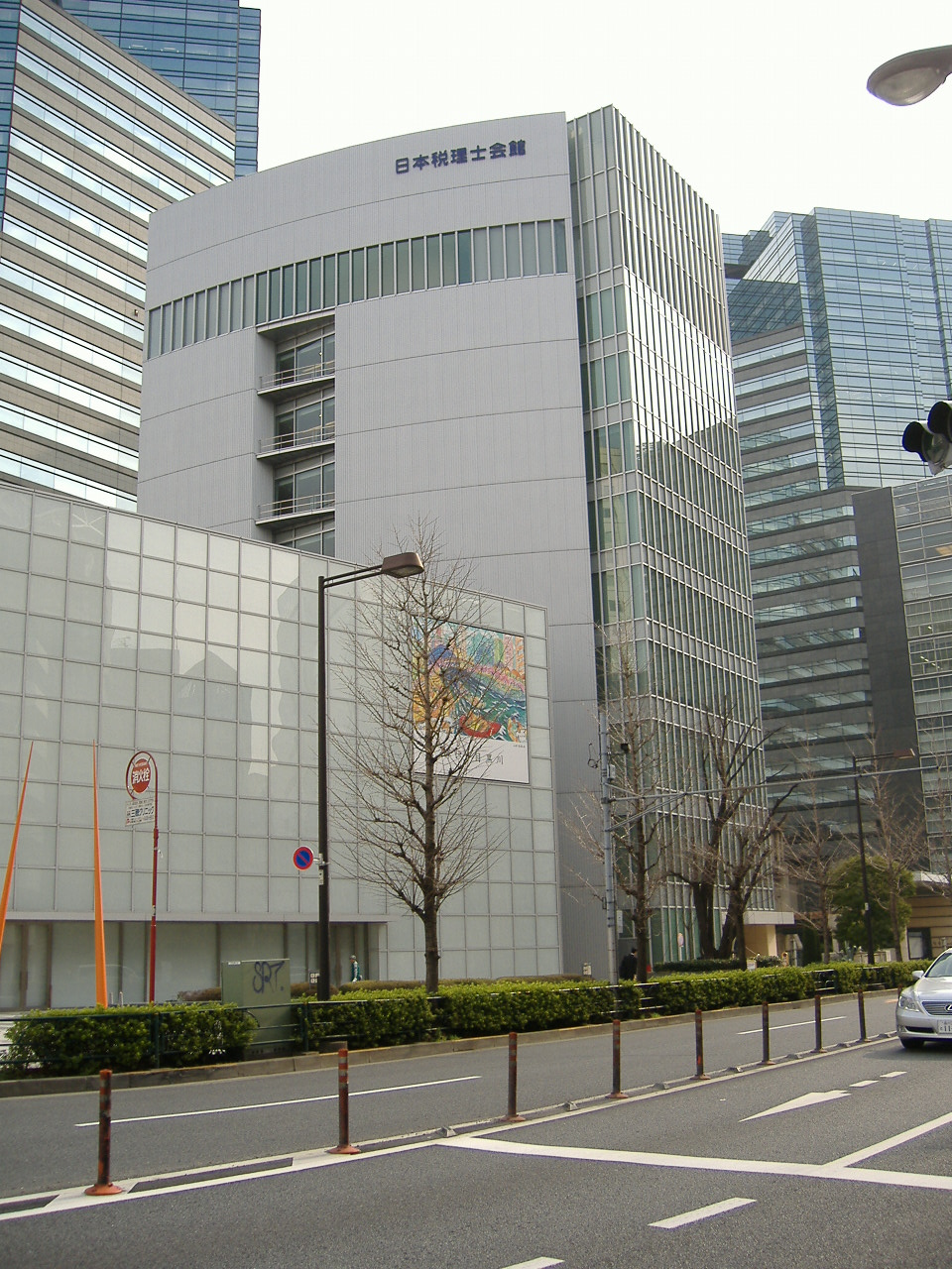 Nihon Zeirishi Kaikan building(Tokyo,Japan)